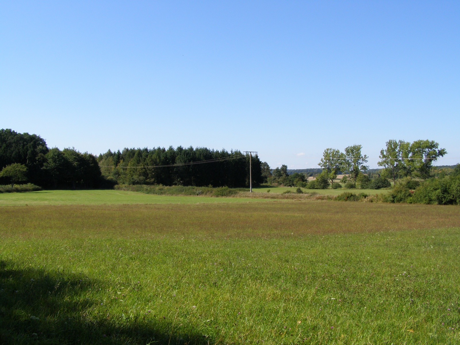 Old route of the Butzbach-Licher Eisenbahn between Lich an Nieder-Bessingen